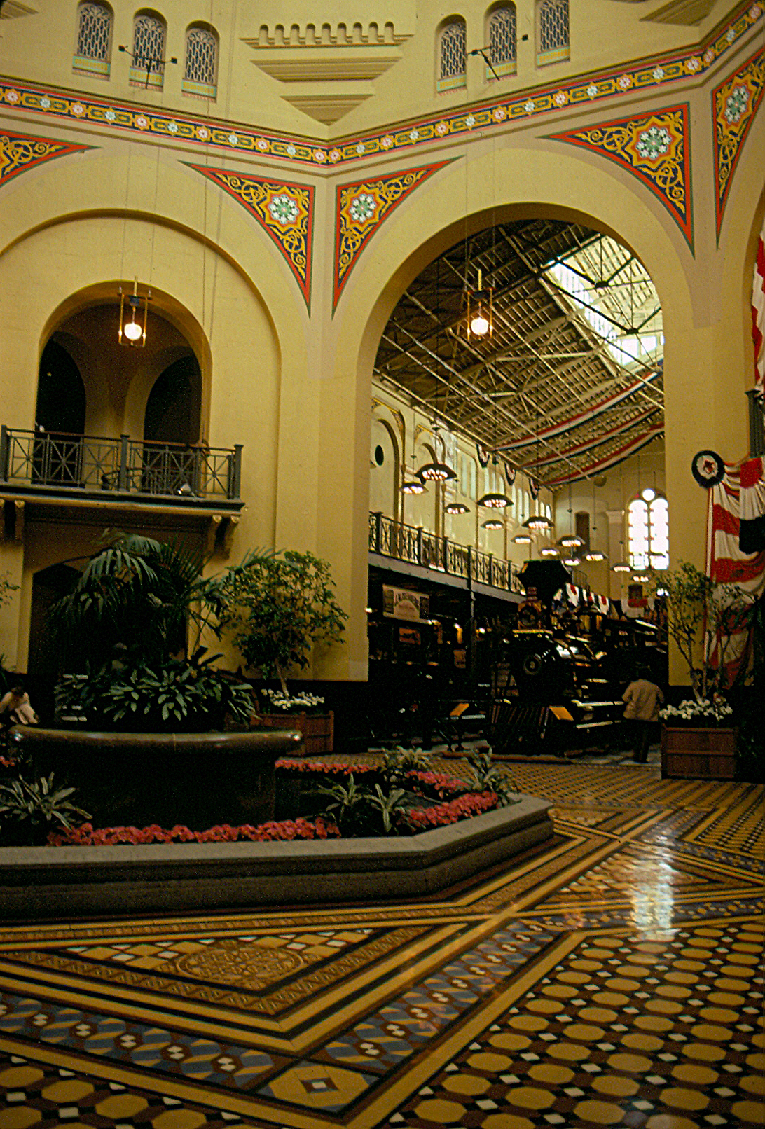 Arts and Industries Building in 1982 (around January 23)